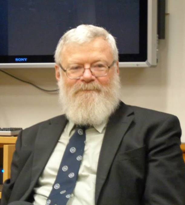 Mark H. Gelber at the Goethe Society in Auckland, New Zealand, 2013